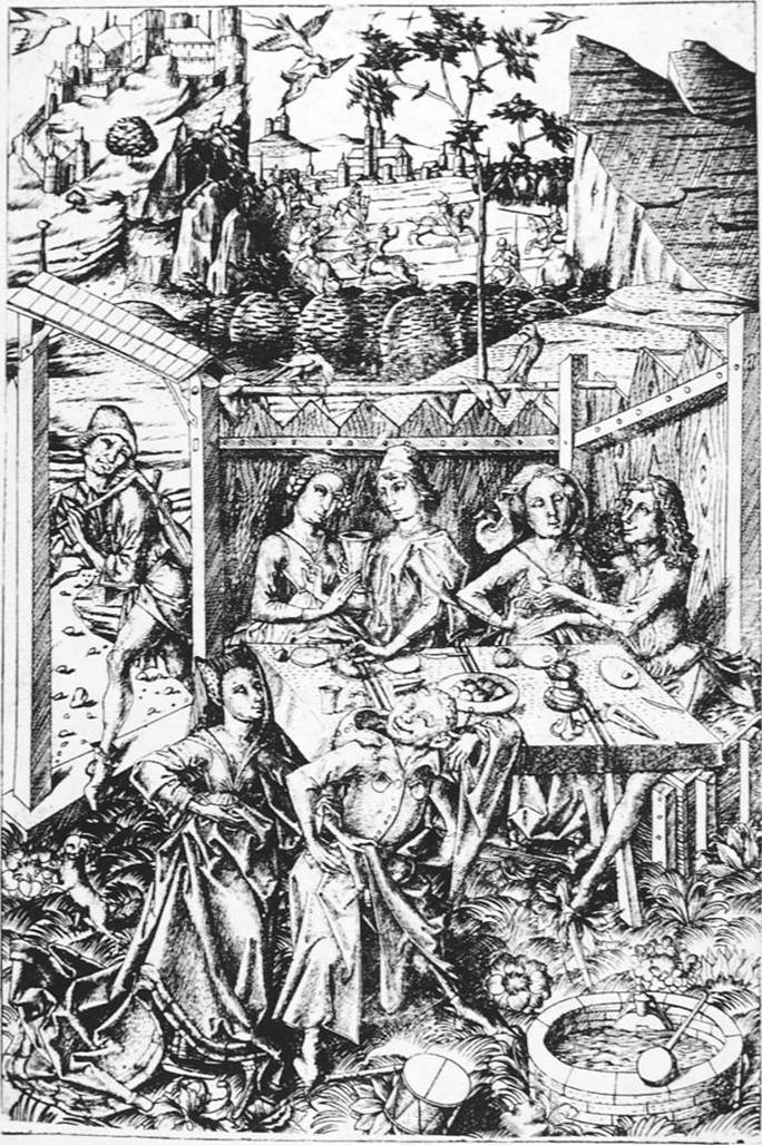 The Feast in the Garden of Love, Master E. S., 1465, German, engraving